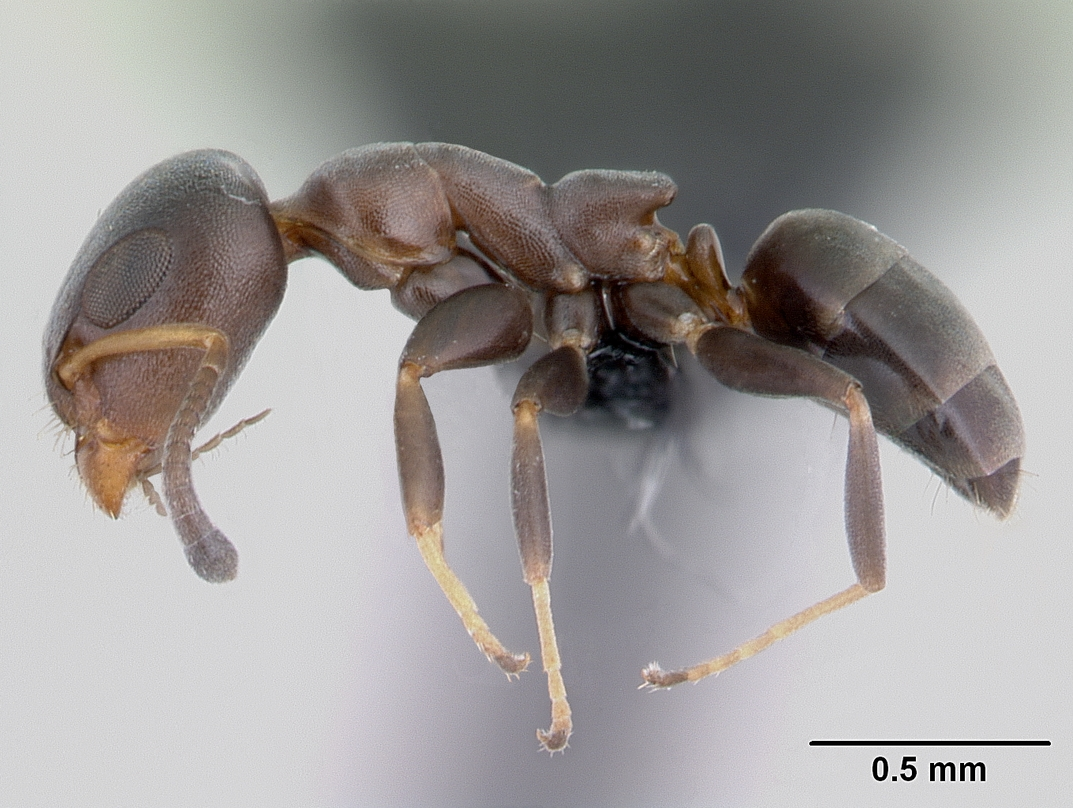 Profile view of ant Turneria bidentata specimen casent0069974.